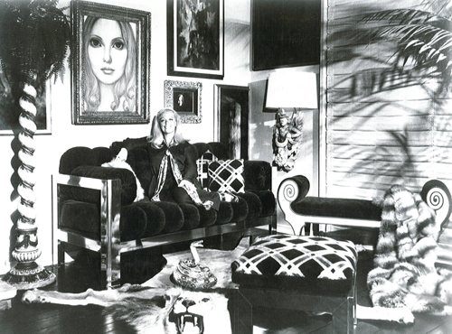 Phyllis Morris in her Los Angeles showroom in the 1970s.